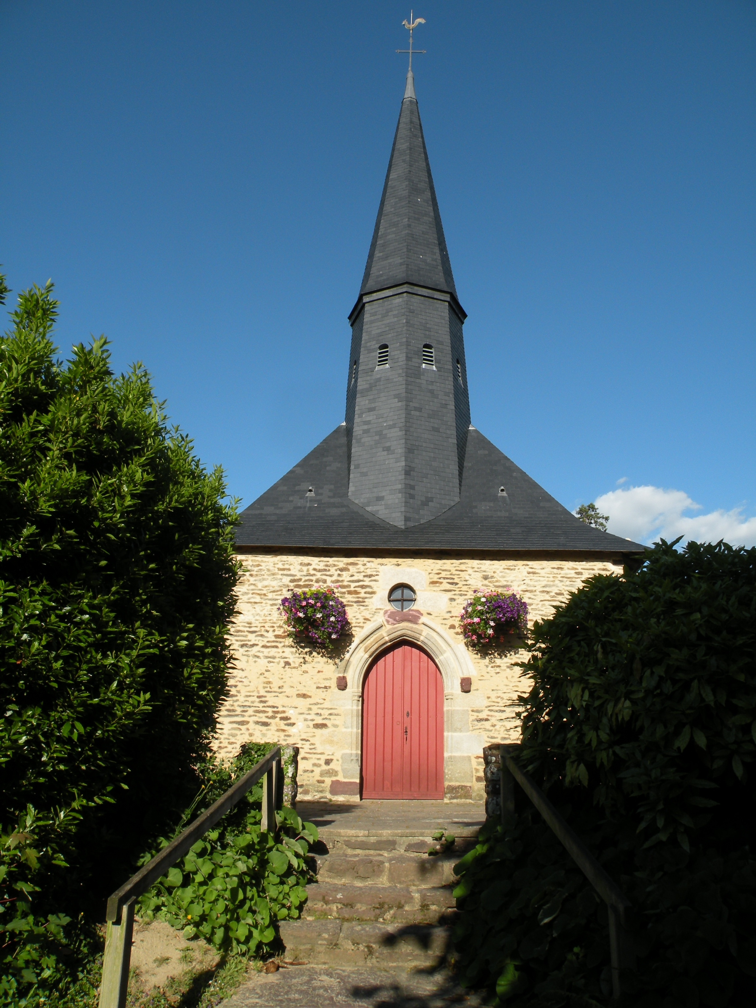 Church of Clayes.